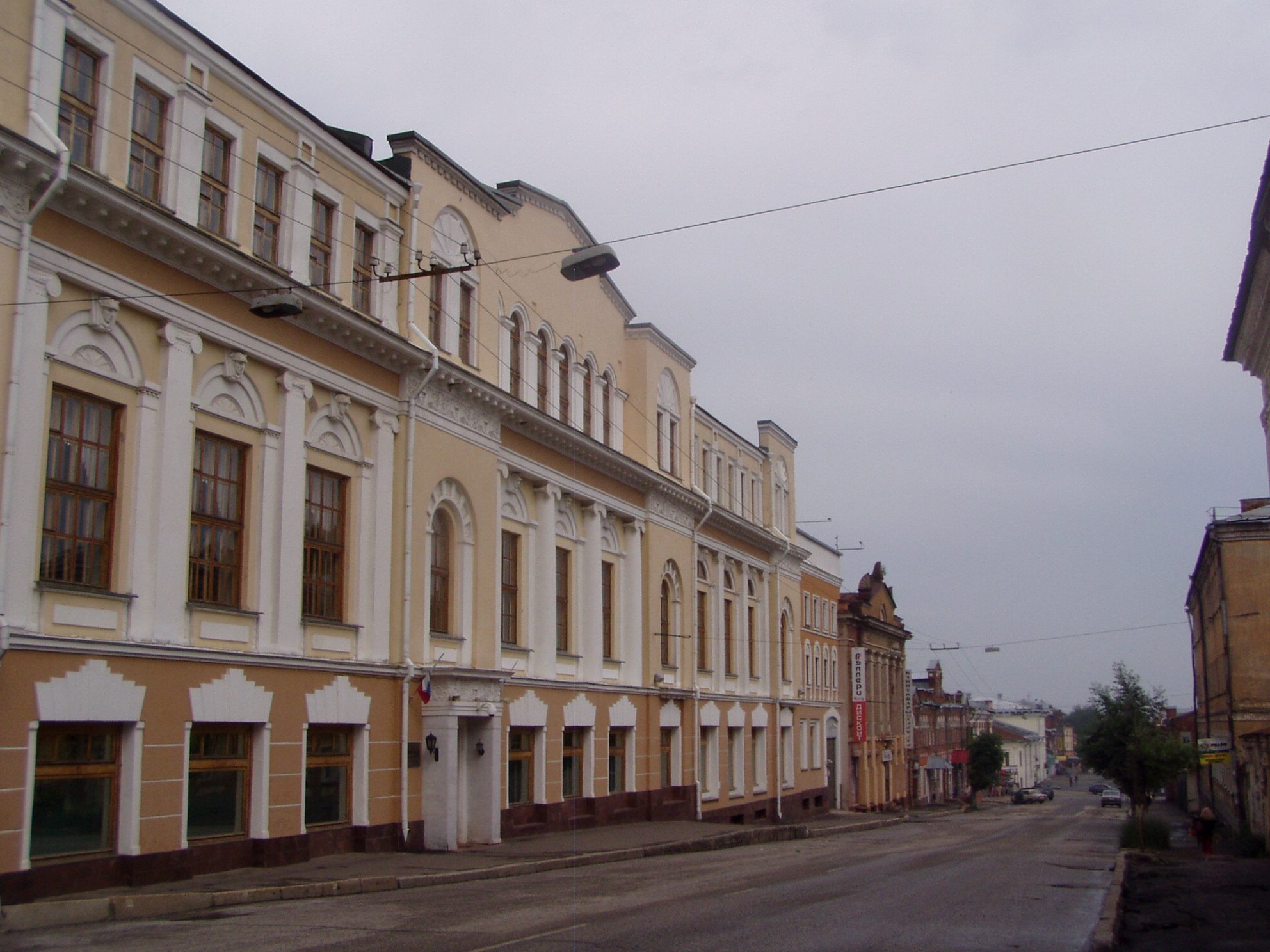 Spasskaya (Drelevskogo) street in Vyatka, Russia